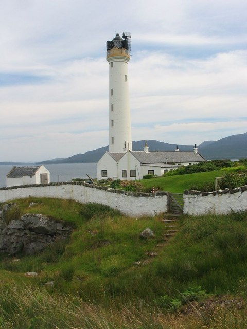 Rubh' a' Mhail Lighthouse, Islay